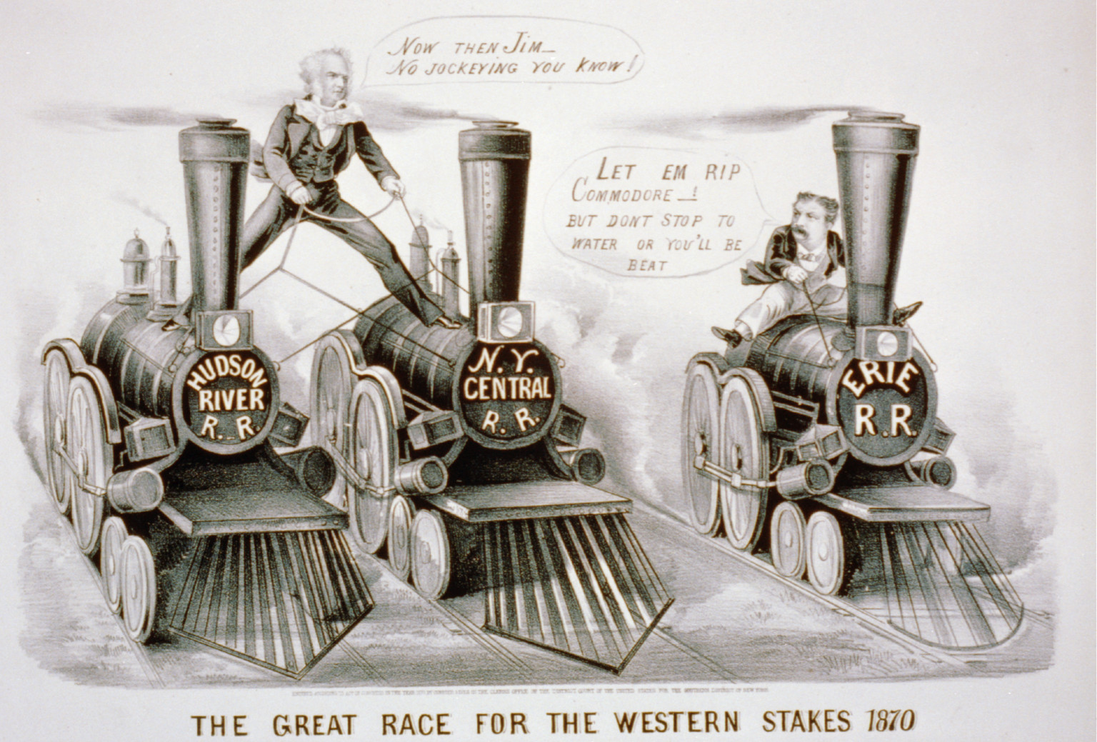 "The Great Race for the Western Stakes, 1870," Cornelius Vanderbilt versus James Fisk; Currier & Ives lithograph.